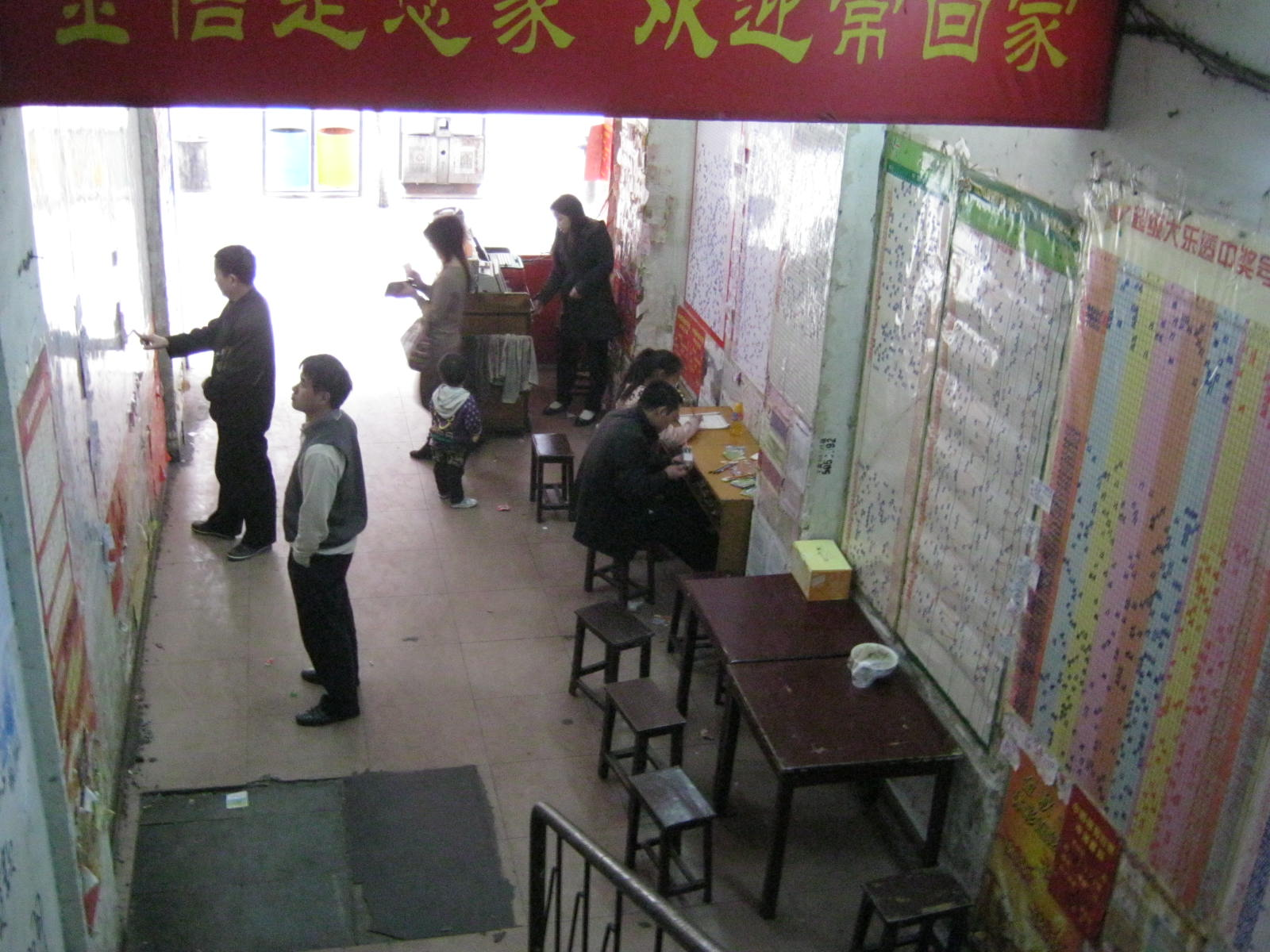 China Lottery (彩票销售店) in ShaoYang, Hunan Province